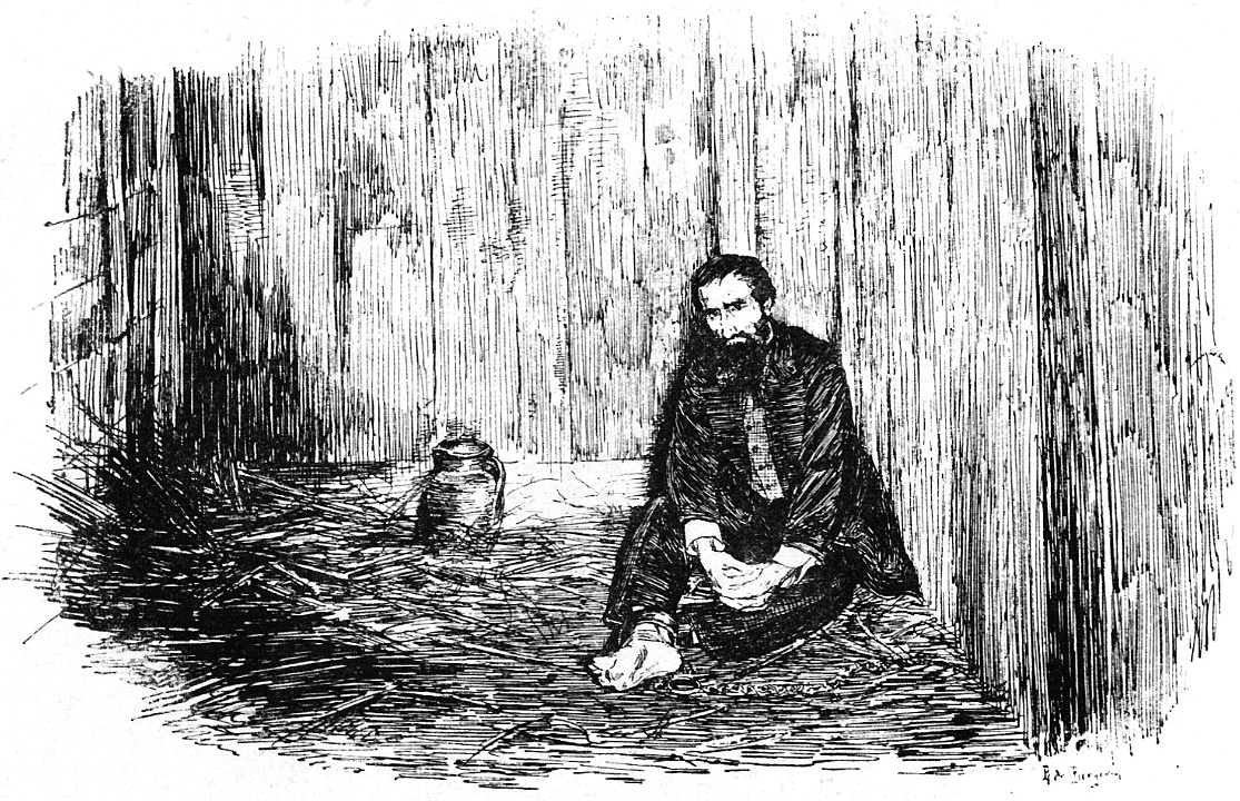 Armand Barbès prisoner at Mont Saint-Michel 1839-1843 after the quelled uprising of May 12, 1839